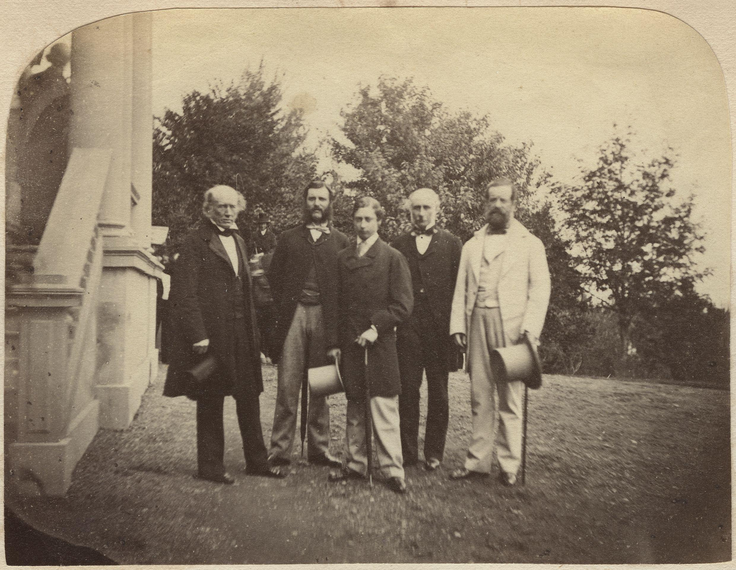 Sir Edmund W. Head, 8th Bt; Sir Christopher C. Teesdale; King Edward VII; Hon. Robert Bruce; Henry P. F. Pelham-Clinton, 5th Duke of Newcastle-under-Lyne, by William Notman (died 1891). According to a modified version of the same image, held by Library and Archives Canada, the photograph was taken "in front of Sir John Rose's house, Sherbourne Street" in Montreal, Canada, during the royal tour of North America by the Prince of Wales. All images in this batch have been confirmed as author died before 1939 according to the official death date listed by the NPG.